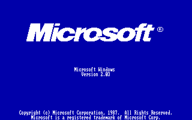 An image of the splash screen of Windows 2.03